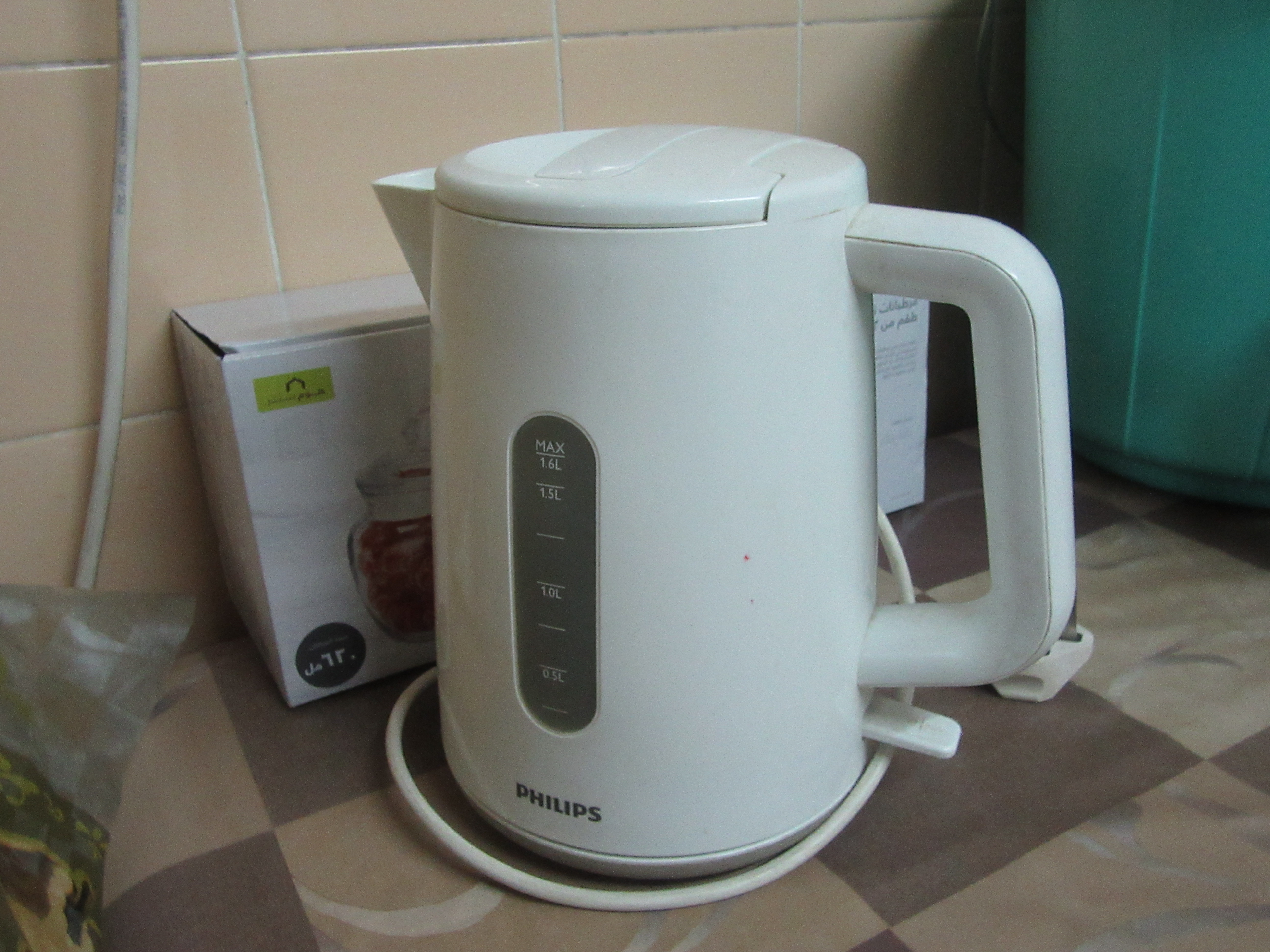 A white Philips water kettle